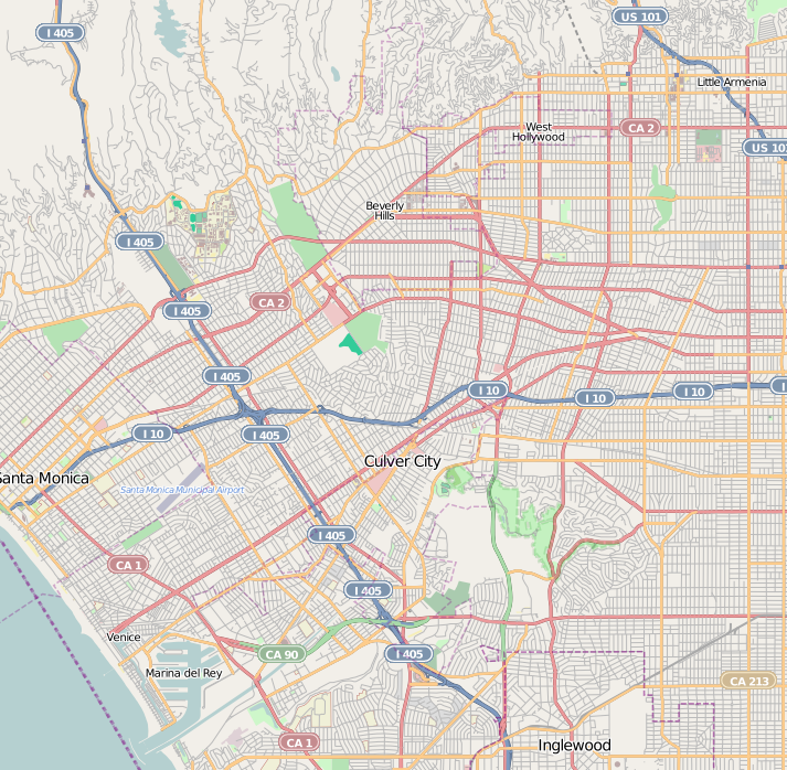 This map of West Los Angeles was created from OpenStreetMap project data, collected by the community. This map may be incomplete, and may contain errors. Don't rely solely on it for navigation.